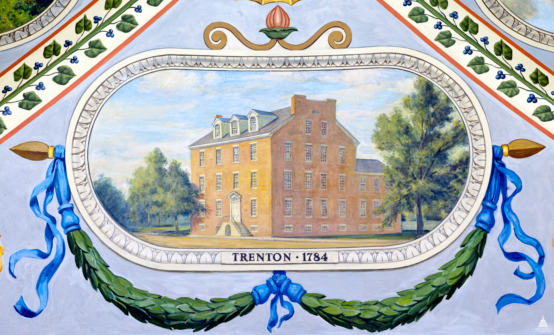 Allyn Cox Oil on Canvas 1973-1974 Hall of Capitols House wing, Cox Corridors In November and December 1784 the Congress met in the French Arms tavern in Trenton, New Jersey. This official Architect of the Capitol photograph is being made available for educational, scholarly, news or personal purposes (not advertising or any other commercial use). When any of these images is used the photographic credit line should read “Architect of the Capitol.” These images may not be used in any way that would imply endorsement by the Architect of the Capitol or the United States Congress of a product, service or point of view. For more information visit